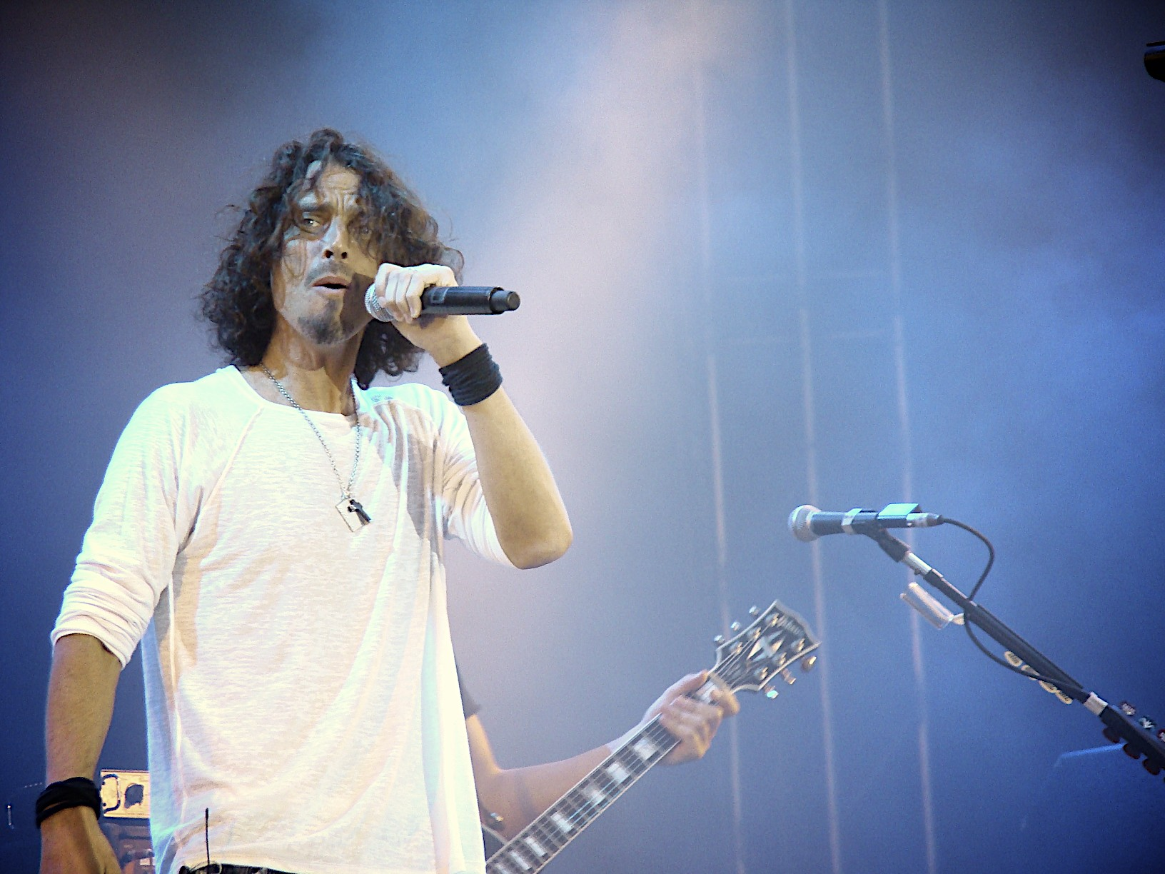 Chris Cornell live at 2009.